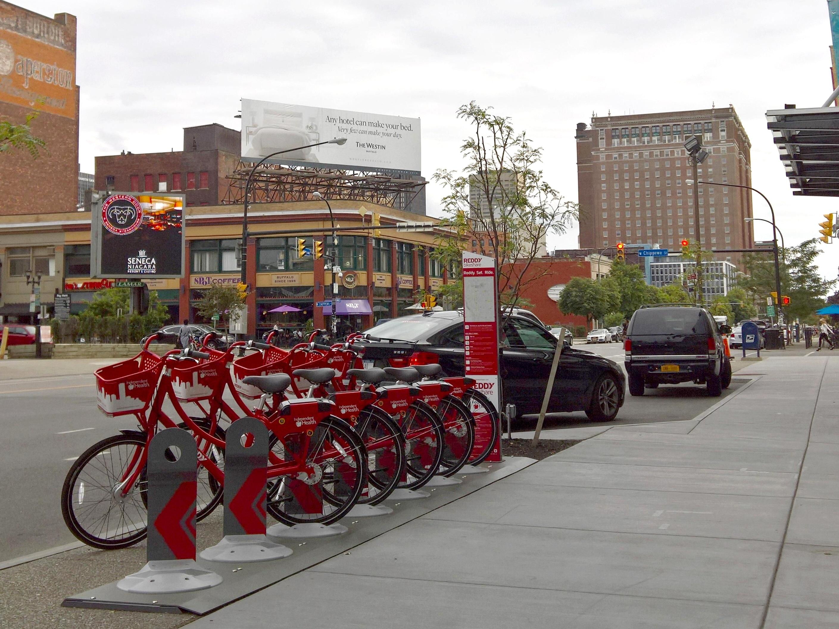 Reddy BikeShare rack, Delaware Avenue at West Chippewa Street, Buffalo, New York.